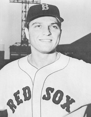 Professional baseball player Jerry Casale